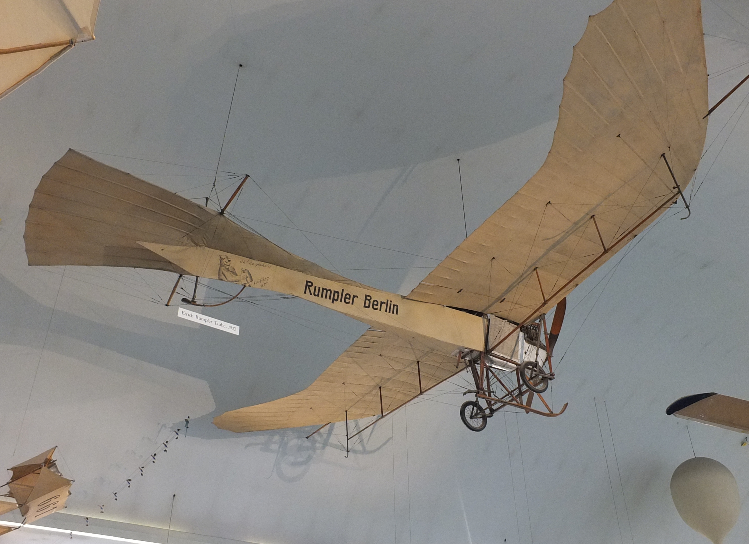 Etrich Rumpler Taube (c/n 19) in the Deutsches Museum. The two-seat Taube ('pigeon') was designed in Austria by Igo Etrich. Thanks to its wing planform, it combined excellent stability with good handling qualities and was a popular training aircraft in the period up to 1914. The Etrich Taube, also known by the names of the various later manufacturers who build versions of the type, such as the Rumpler Taube, was a pre-World War I monoplane aircraft. It was the first military aeroplane to be mass-produced in Germany.